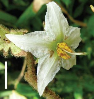 Hermaphroditic flower of Solanum rubicaule (Scale bar = 1cm)